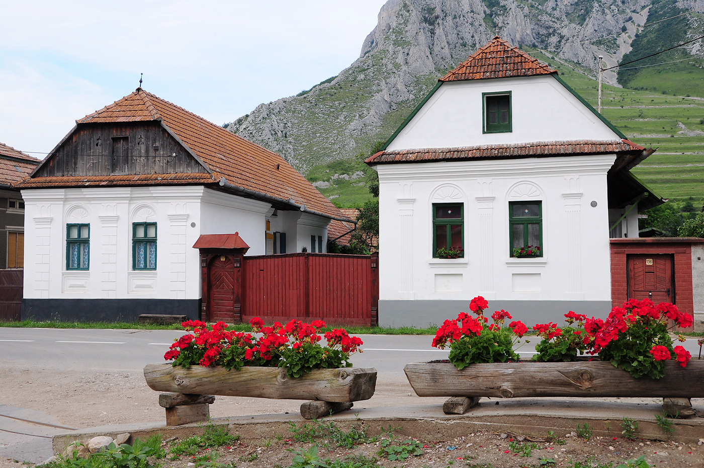 Historic houses in Rimetea village.